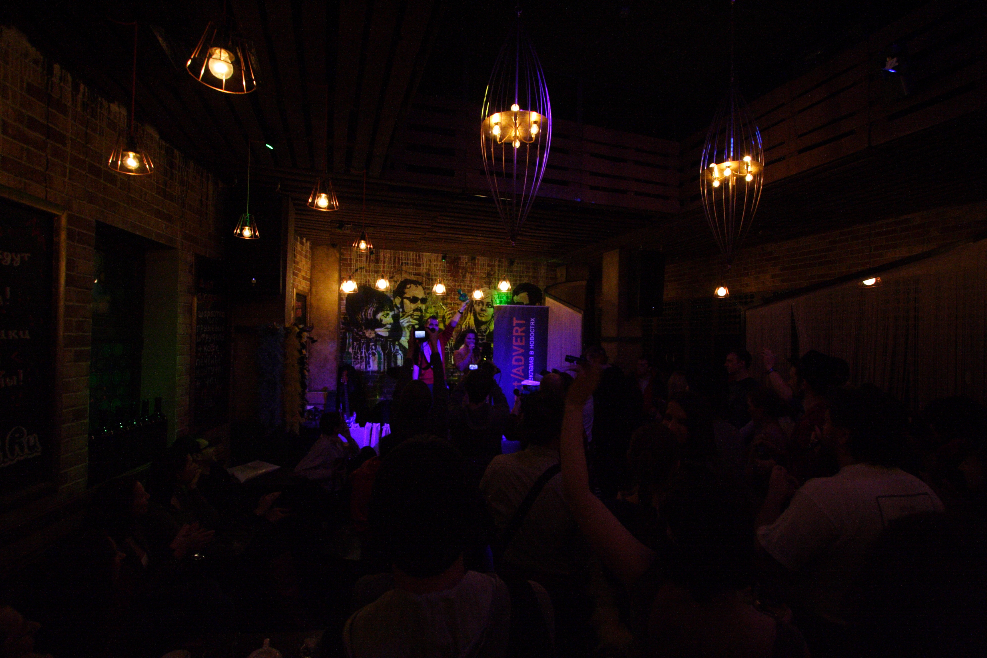 Antipremia Runeta 2012. Just awarded Lenta.ru speaks their award speech: "Zaebis'!"